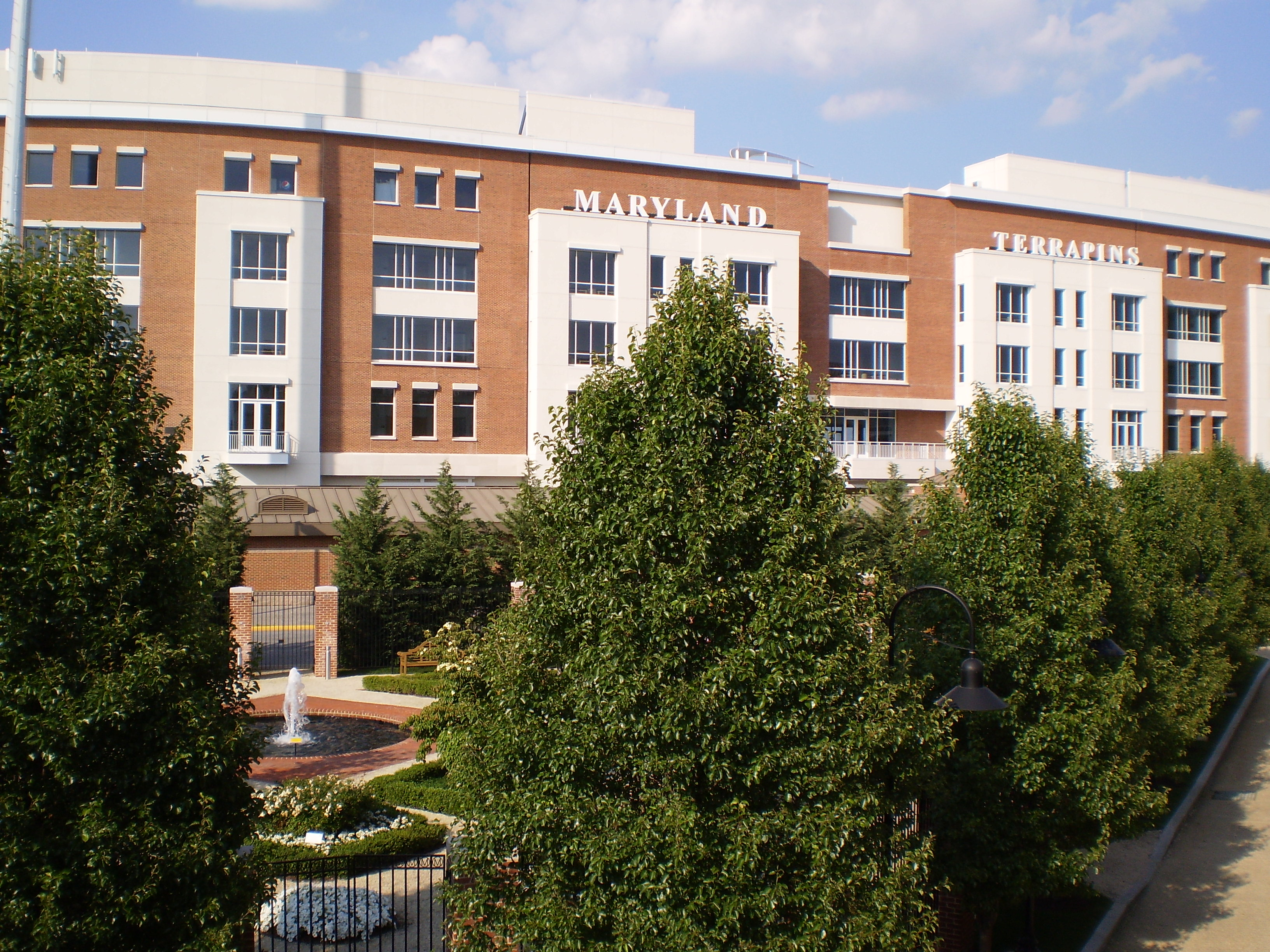 View of the new luxury suites of Byrd Stadium's Tyser Tower, home of the Maryland Terrapins. On the campus of the University of Maryland, College Park.